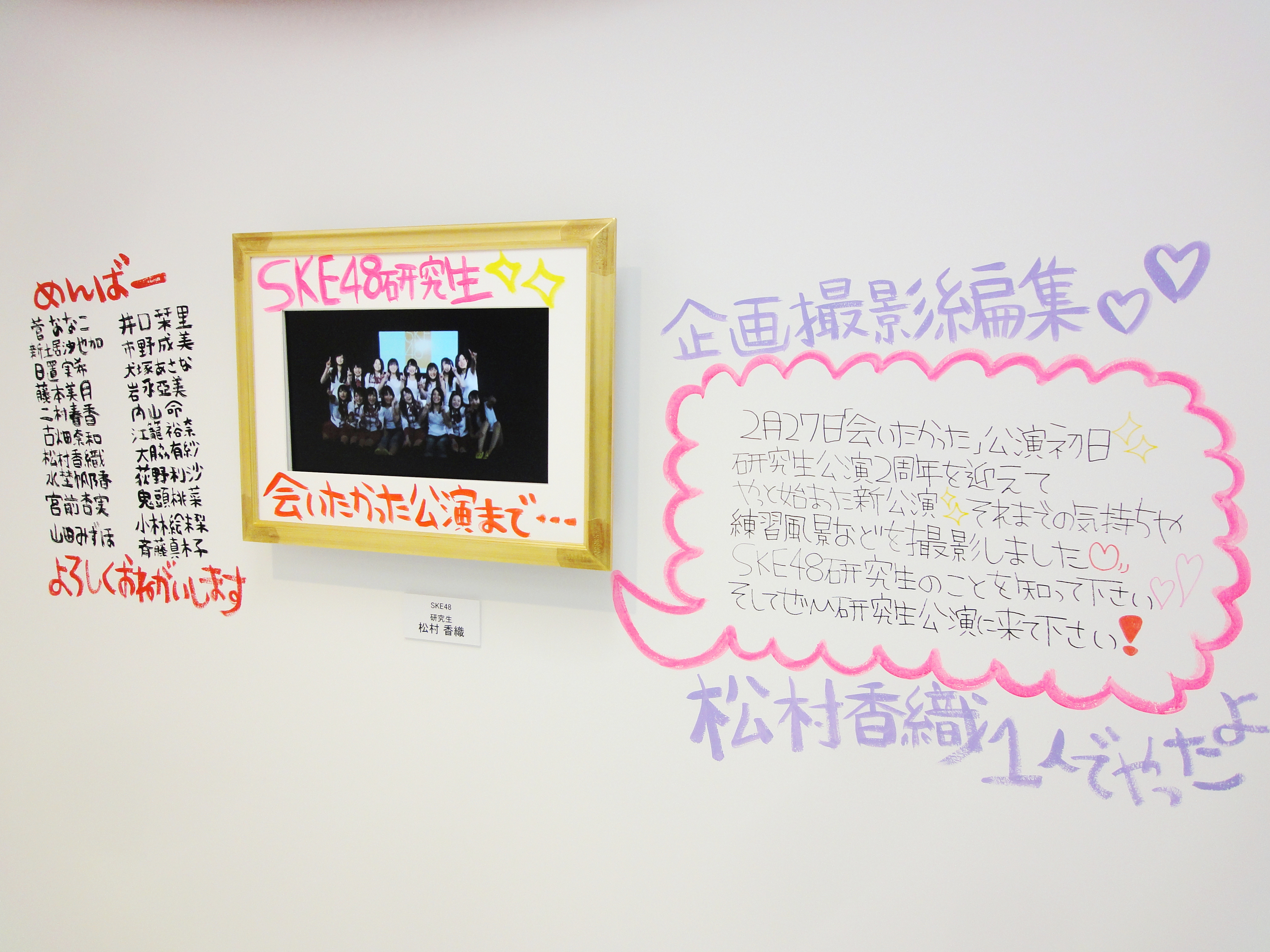 A photo of a video display created by Kaori Matsumura.